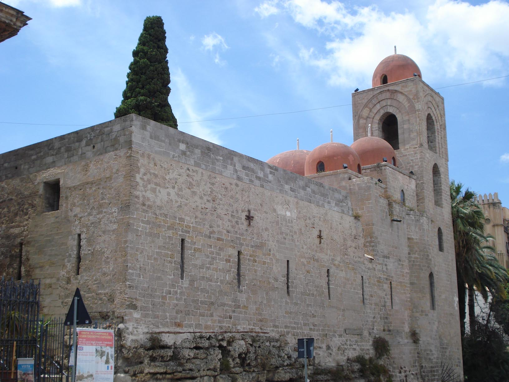 Church and refectory of S Giovanni degli Eremiti (from via Benedettini)